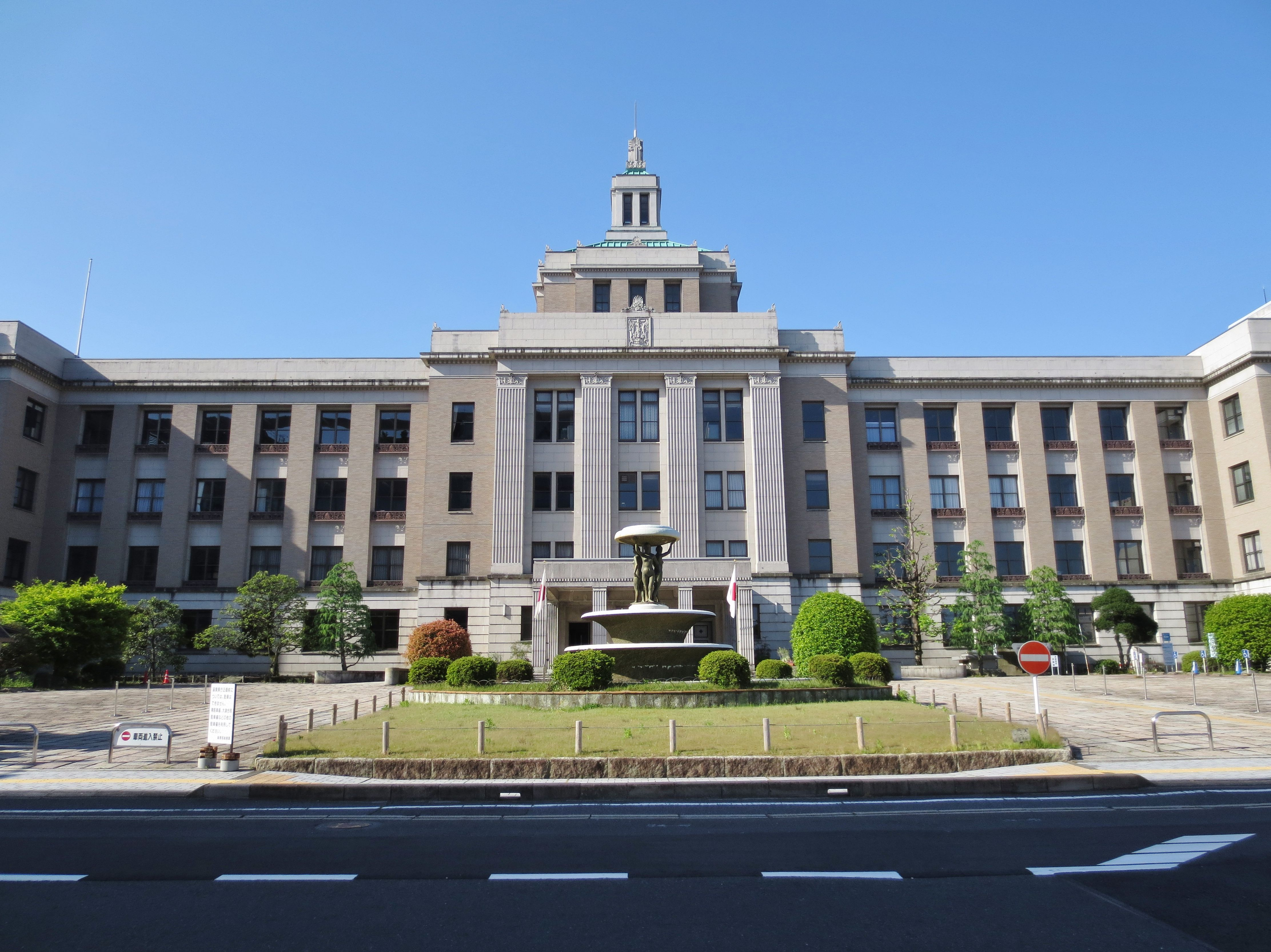 Shiga Prefectural Government Office.